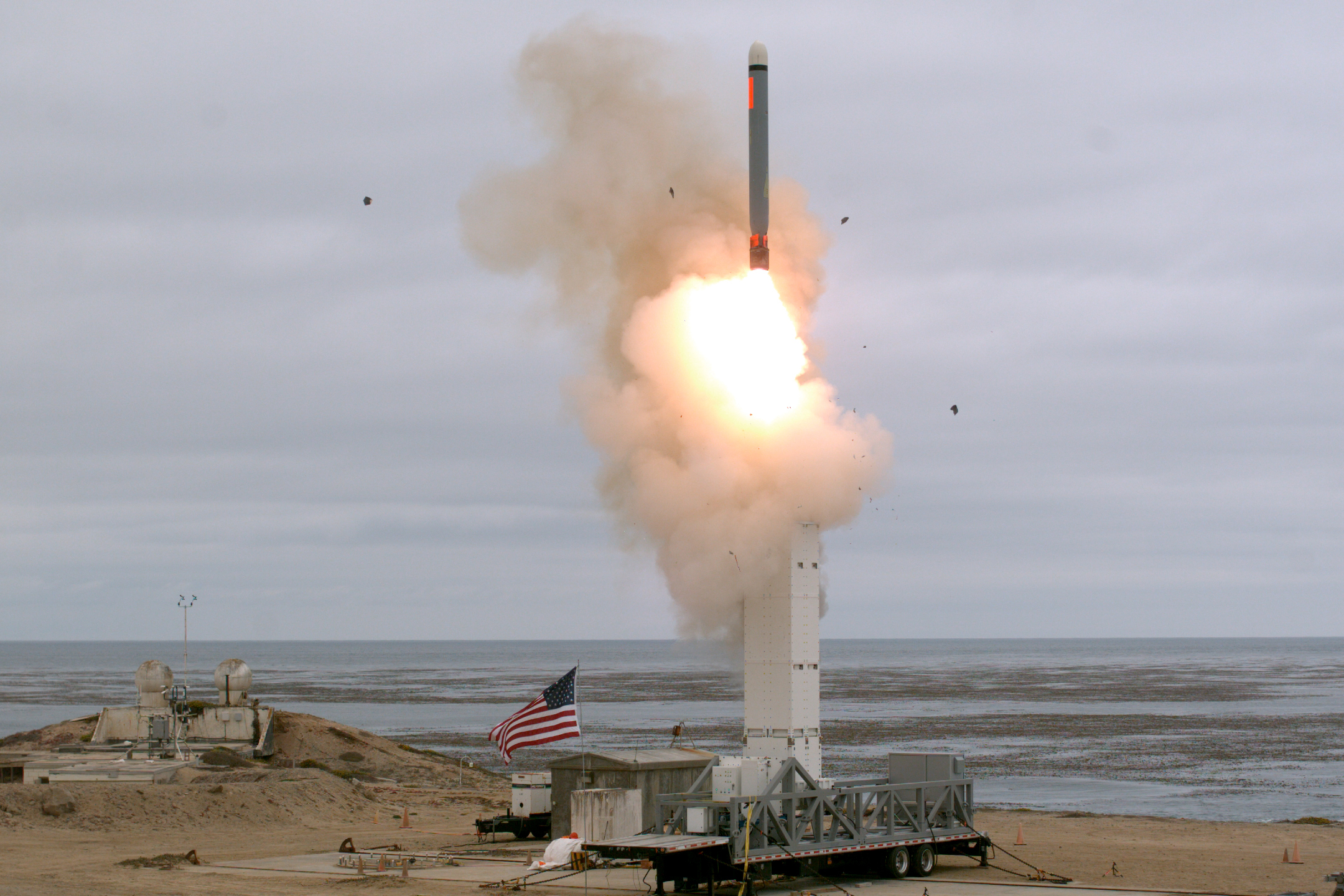 On Aug. 18, at 2:30 p.m. Pacific Daylight Time, the Defense Department conducted a flight test of a conventionally configured ground-launched cruise missile at San Nicolas Island, Calif. The test missile exited its ground mobile launcher and accurately impacted its target after more than 500 kilometers of flight. Data collected and lessons learned from this test will inform DOD's development of future intermediate-range capabilities.